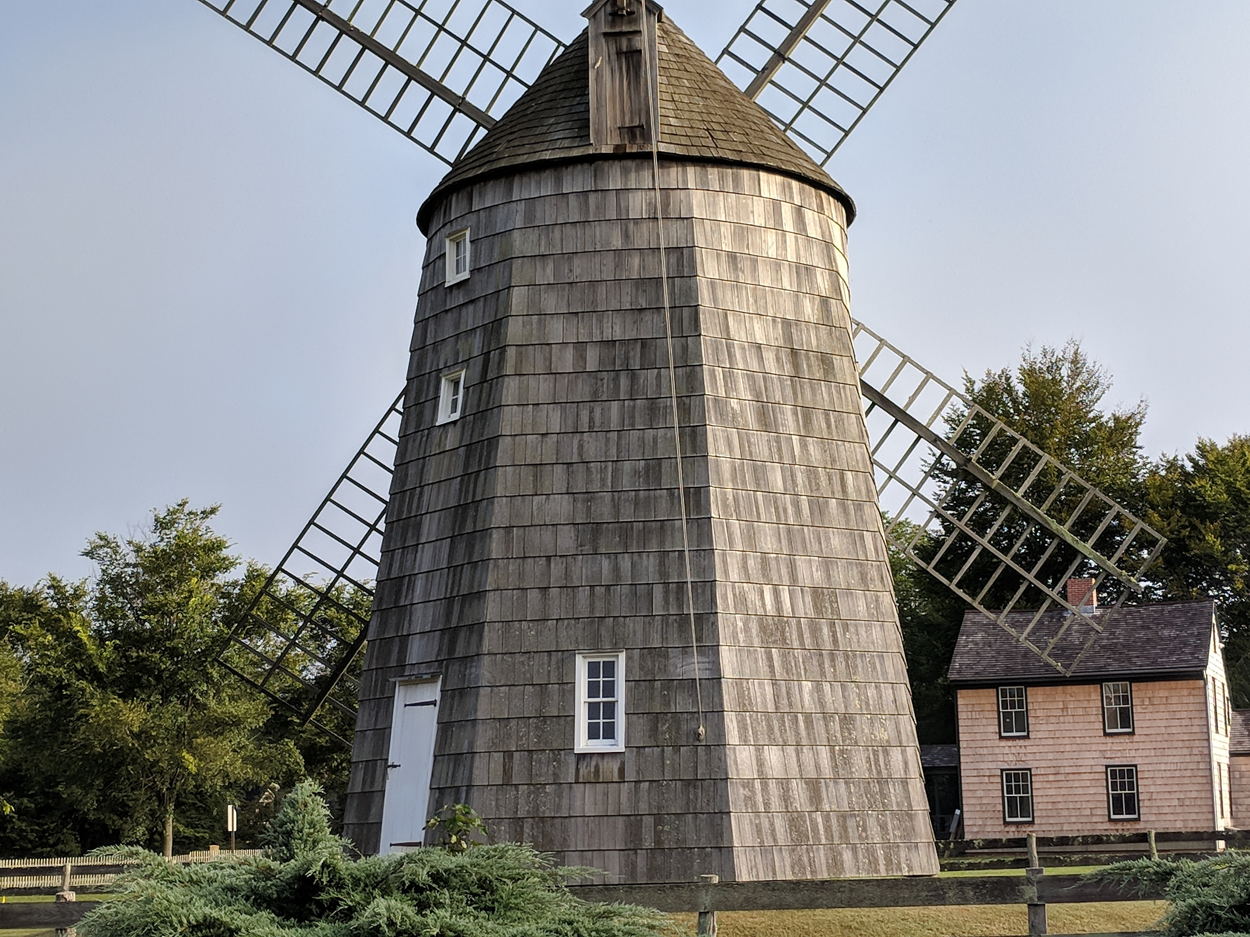 Gardiner Mill is across James lane from South End graveyard, where Lion Gardiner is buried. A re-constructed Saltbox home is in background